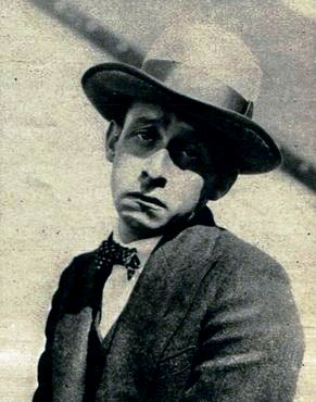 American actor Raymond Hatton on page 28 of the December 1922 Screenland.